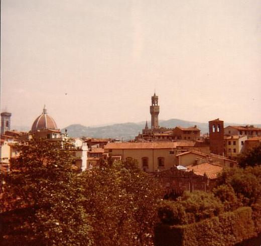 Florence, viewed from the Pitti Palace.